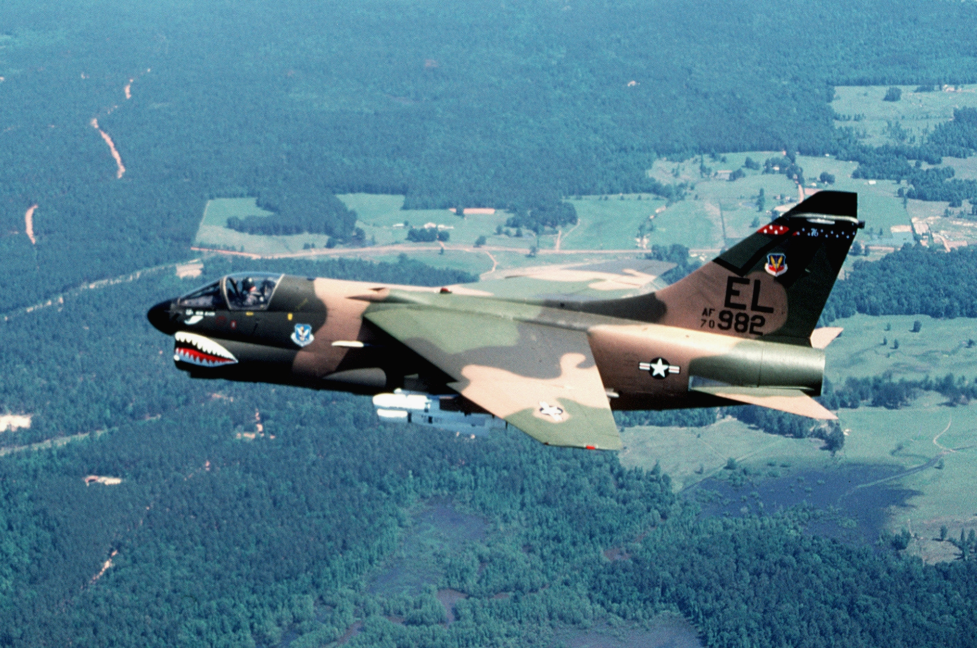 A U.S. Air Force Ling-Temco-Vought A-7D-8-CV Corsair II (s/n 70-0982) assigned to the 76th Tactical Fighter Squadron, 23rd Tactical Fighter Wing in flight. Note the 1976 Bicentennial tail markings. 1971: Aircraft delivered to 354th Tactical Fighter Wing/353d TFS, Myrtle Beach AFB, SC (c/n D-128) Deployed to Korat Royal Thai AFB, Thailand, October 1972; Transferred to 388th Tactical Fighter Wing/3d TFS, March 1973 Transferred to 23d Tactical Fighter Wing/76th TFS, England AFB, LA, Dec 1975 Transferred to 57th Fighter Weapons Wing/66th FWS, Nellis AFB, NV, 1982 Transferred to 4450th Tactical Group/4451st TS, Nellis AFB, NV, 1986 Transferred to 149th Tactical Fighter Squadron, VA Air National Guard, 1989 Transferred to 198th Tactical Fighter Squadron, PR Air National Guard, 1991 Struck off charge at Volk Field ANGB, WI after cracks were found in airframe while unit was there for training, 1991 Currently static display aircraft, Volk Field, Air National Guard Base, Camp Douglas, WI (Marked as Puerto Rico ANG Aircraft)